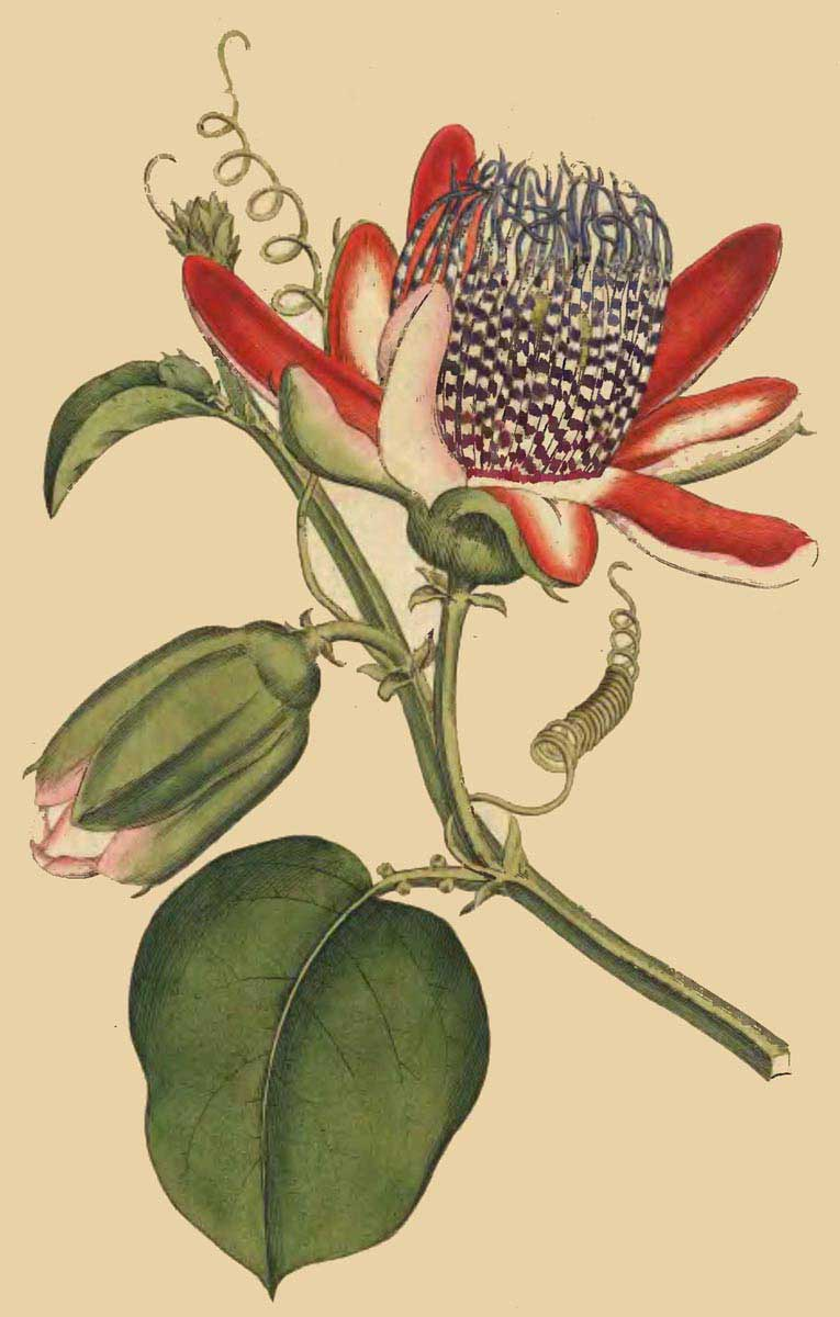 Passiflora alata. Artwork of a species chronicled in the second volume of The Botanical magazine